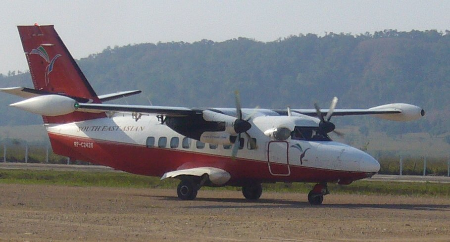 This is a Let L-410UVP-E operated by SEAir. It is taxiing in Busuanga Airport, Busuanga Island, Palawan, Philippines. The photo was taken in April, 2007.